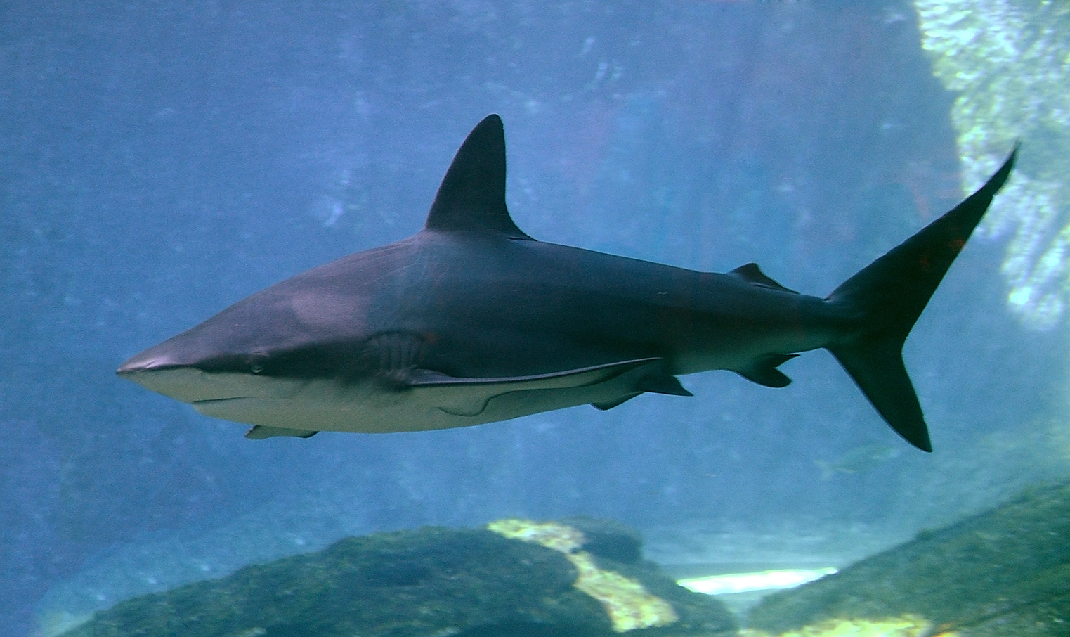 Dusky shark (Carcharhinus obscurus) in UShaka Sea World